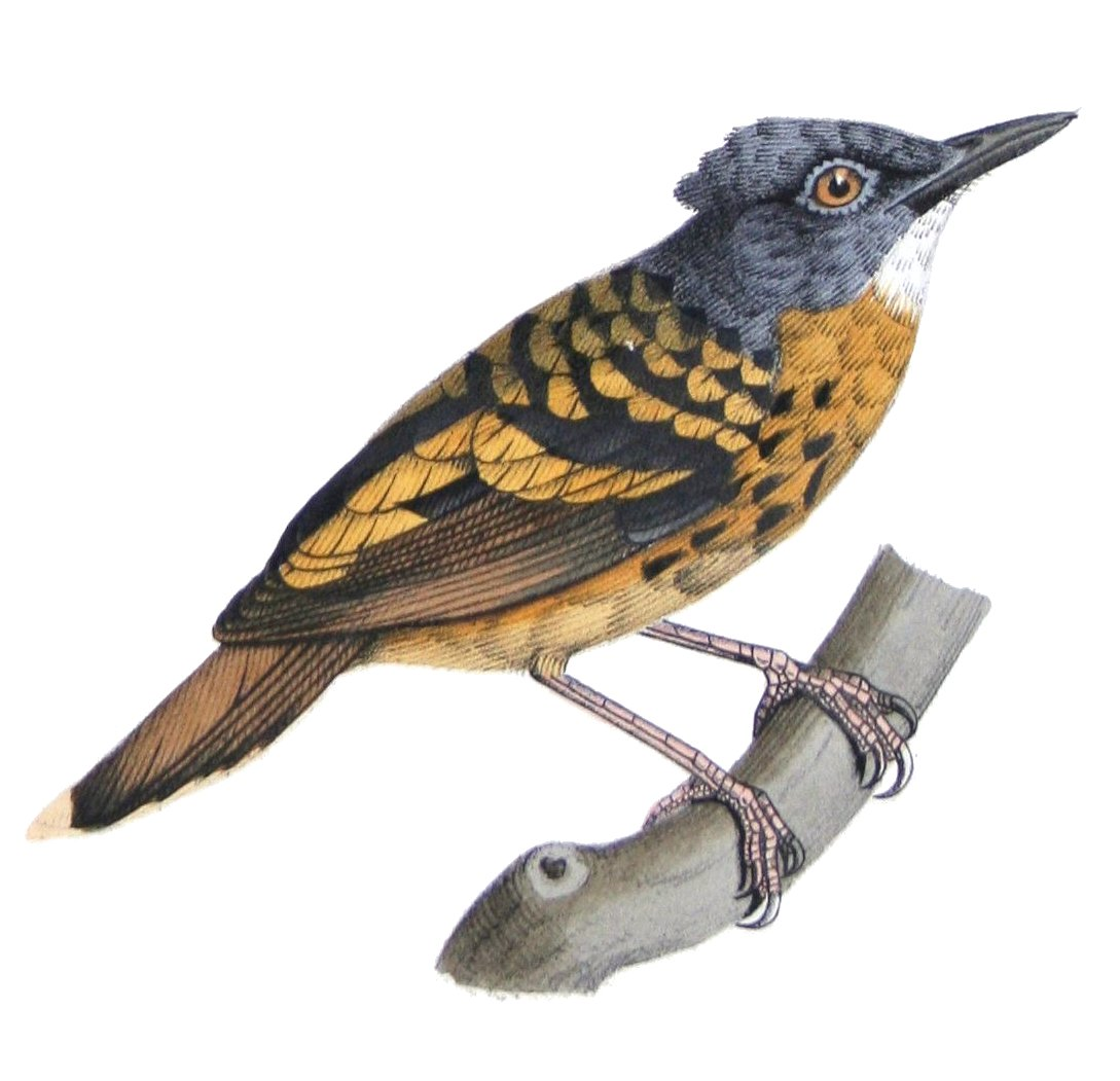 Conopophaga theresae O. Des M. & De Cast. = Hylophylax naevius theresae (Des Murs, 1856)